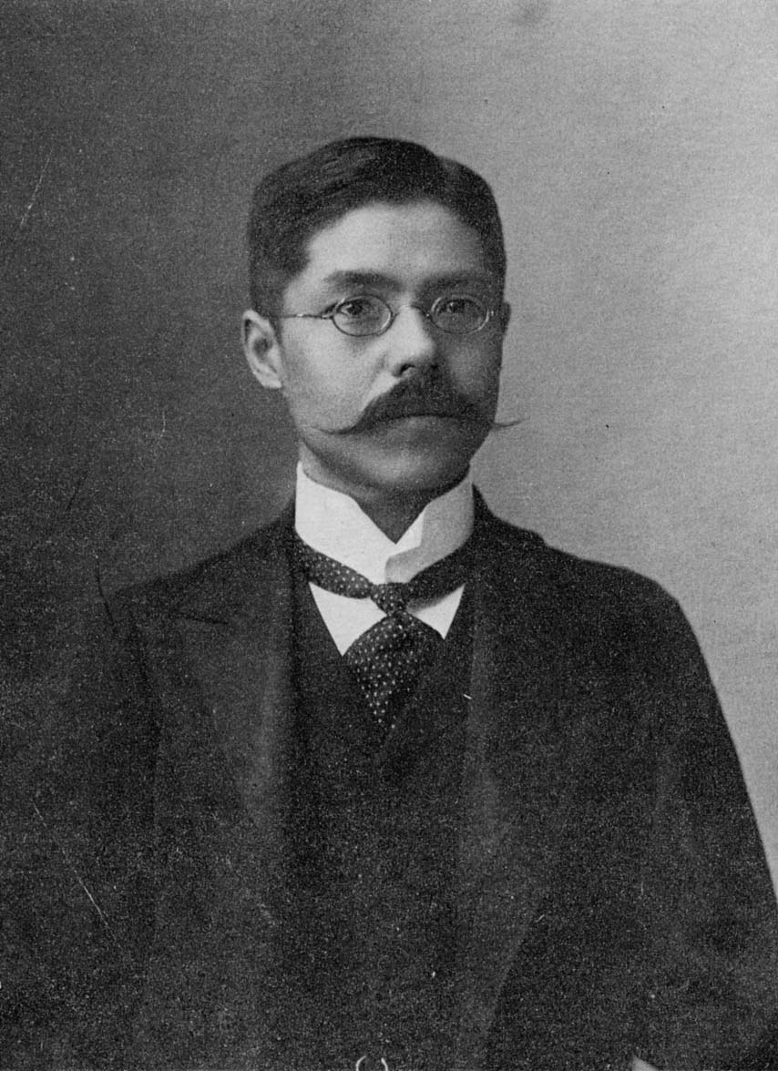 K. Onozuka, Professor of Political Science in the Imperial University of Tokyo.